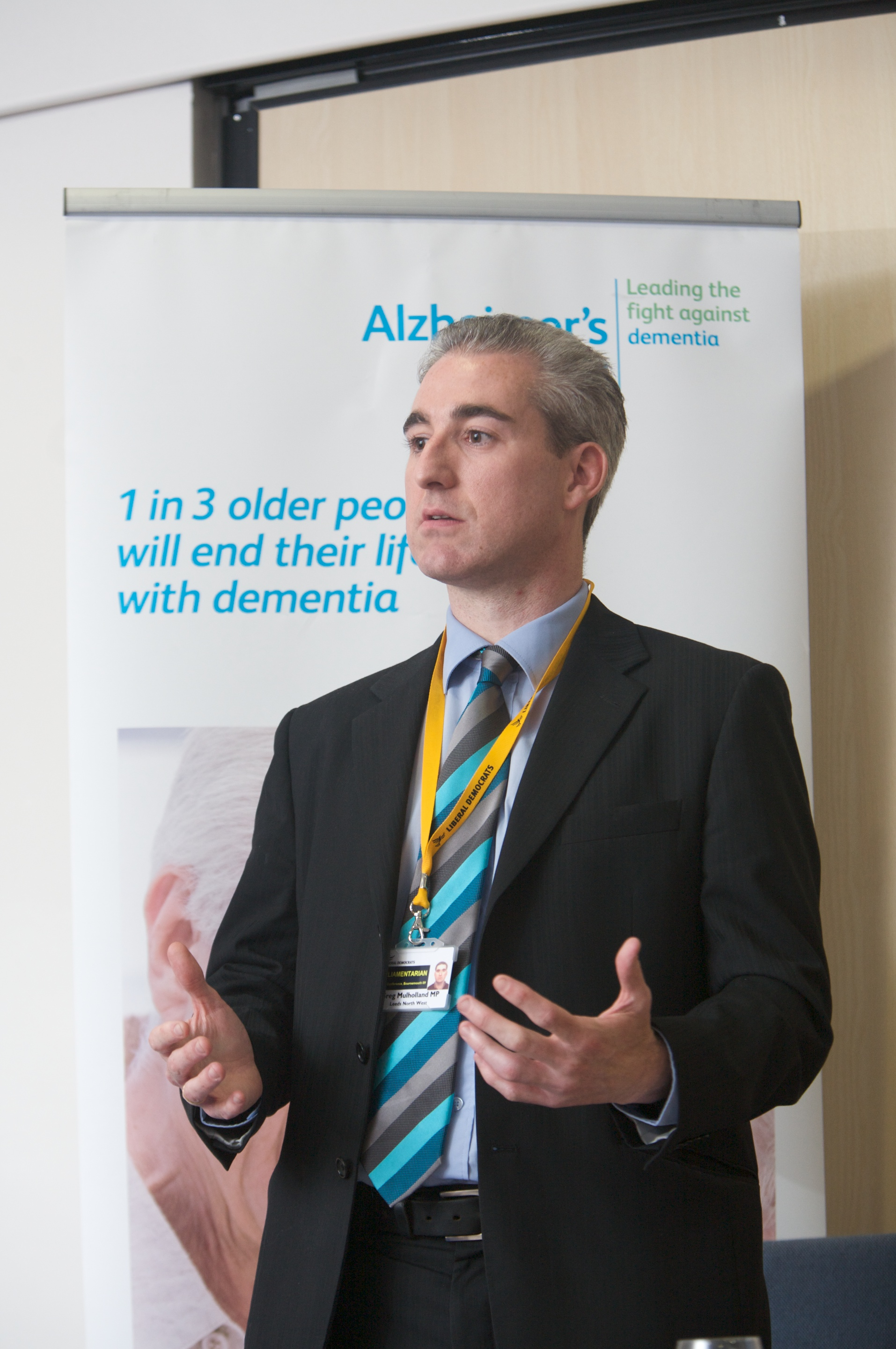 Greg Mulholland, British politician and Liberal Democrat health spokesperson, during the Health Hotel session "Dementia Decade: a cure by 2020?" at the Bournemouth International Centre during the Liberal Democrat Party Conference 2009.